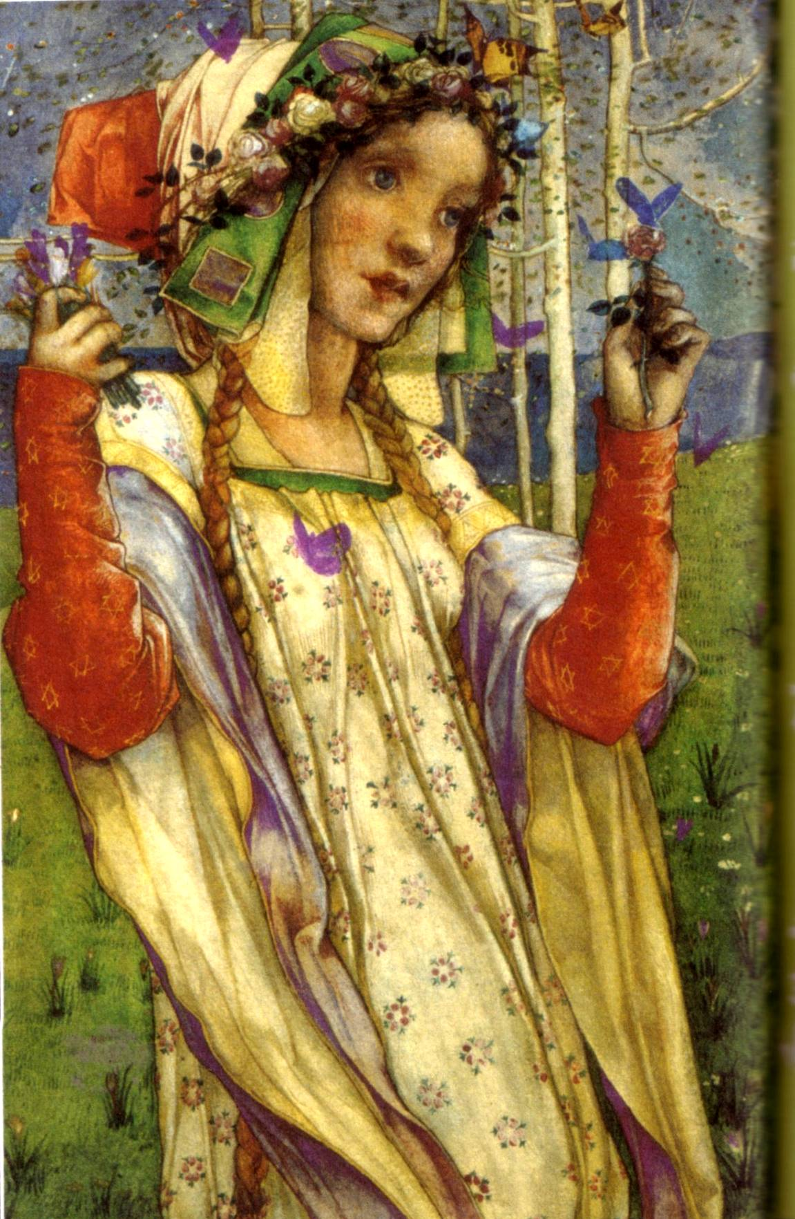 Tableau